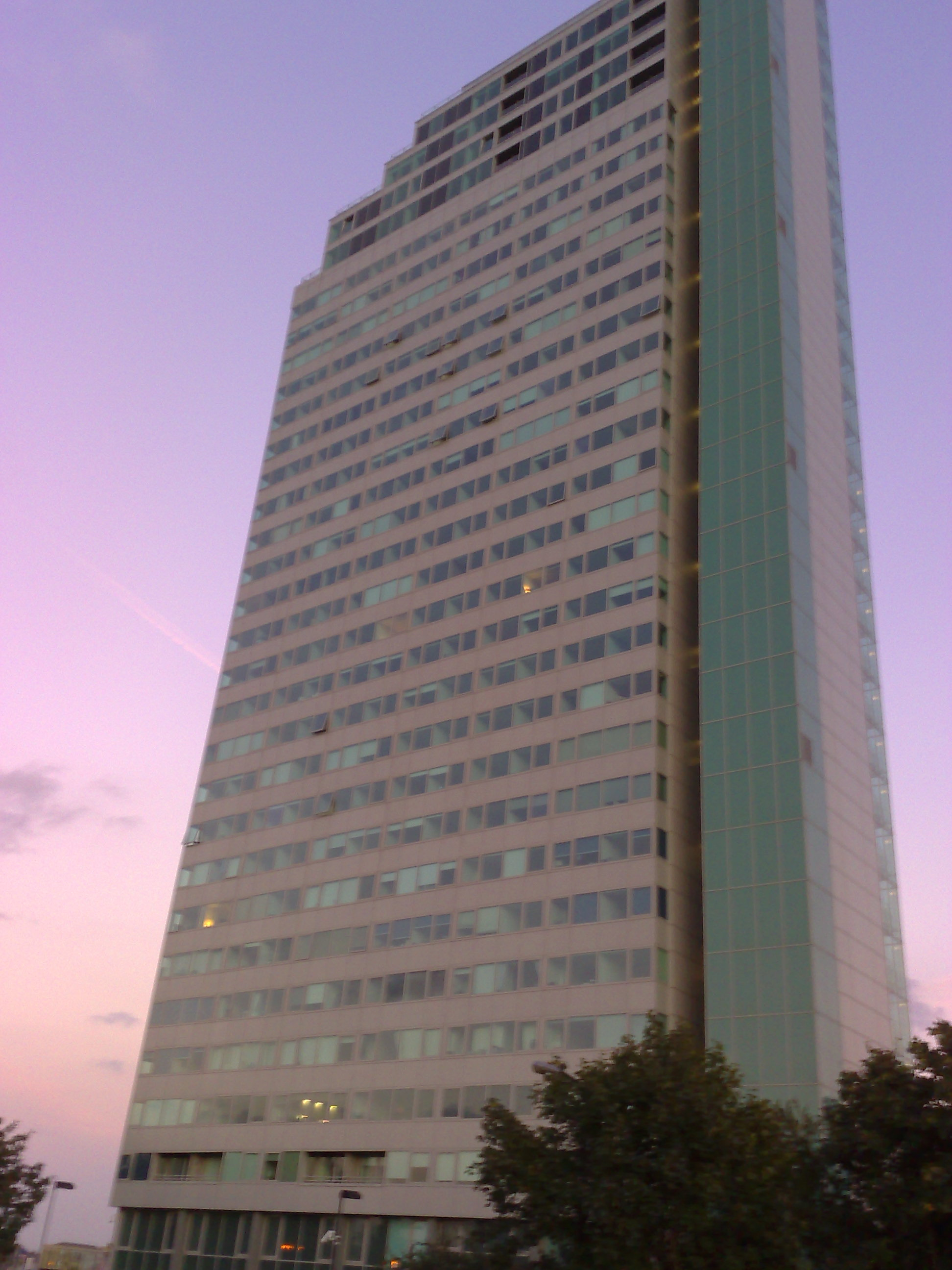 Aragon Tower, Deptford, London SE8: view of the west side.